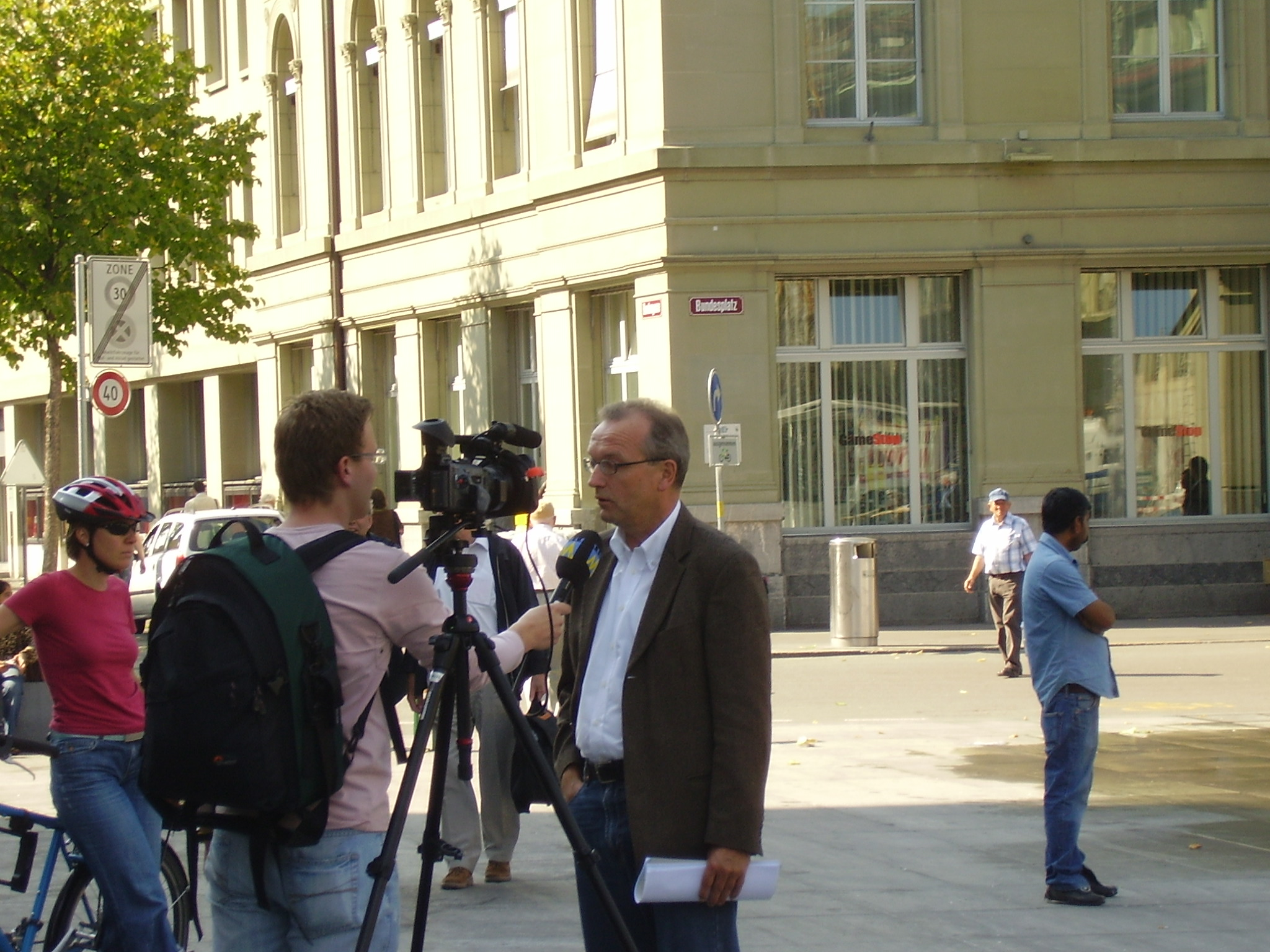 Hans-Jürg Fehr, the president of the Social Democratic Party of Switzerland, made a TV-Interview.